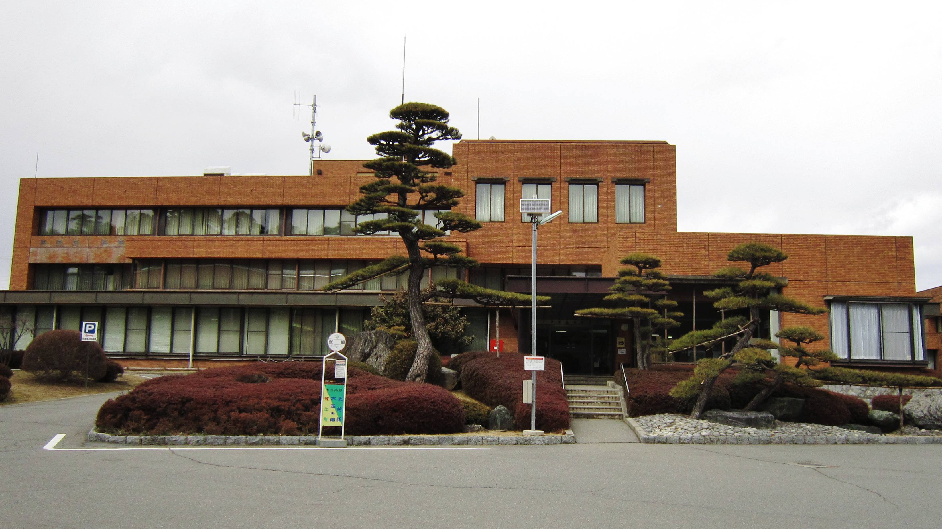 Minamiminowa village office.